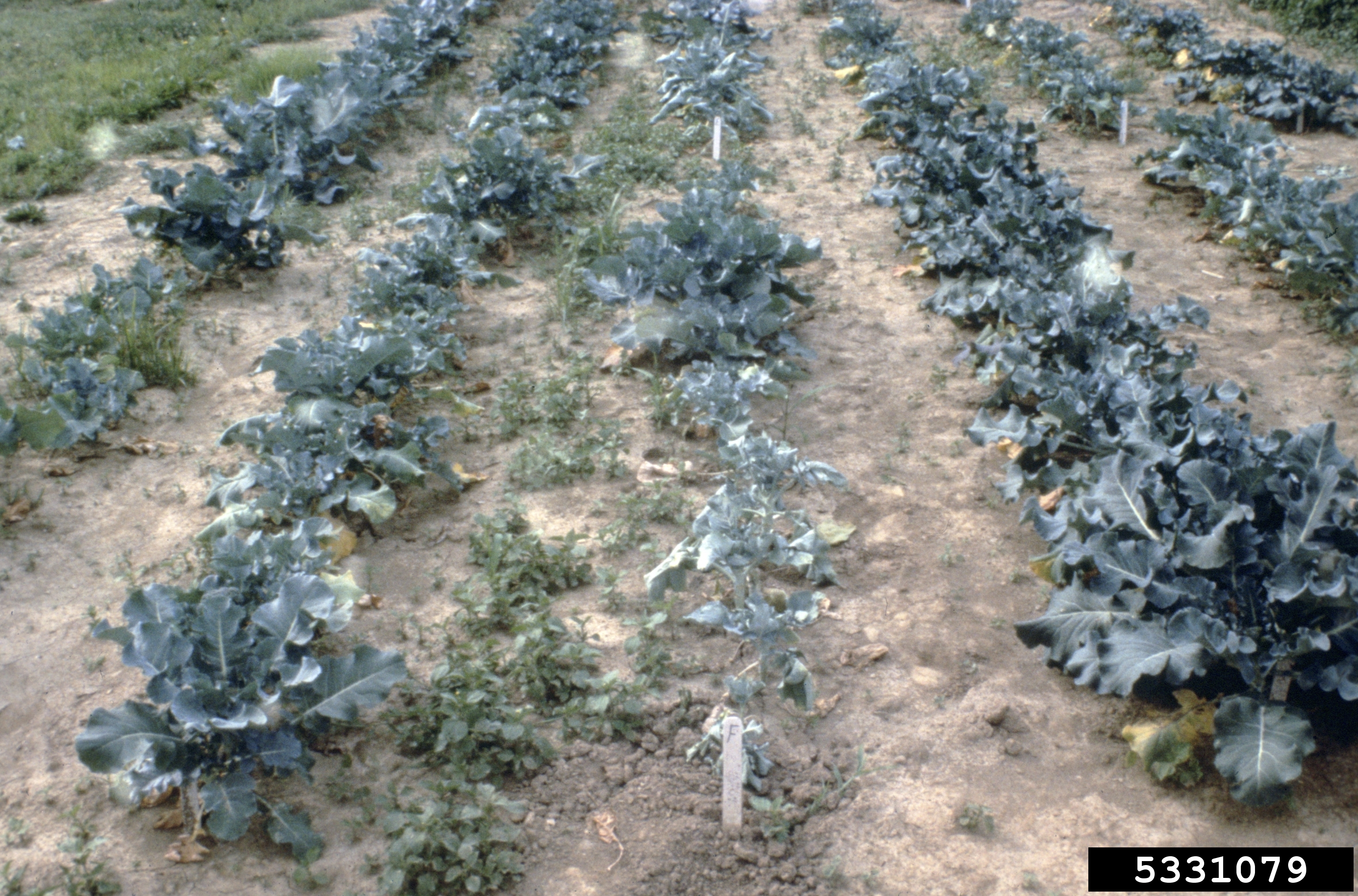 Photo of field showing symptoms of club root